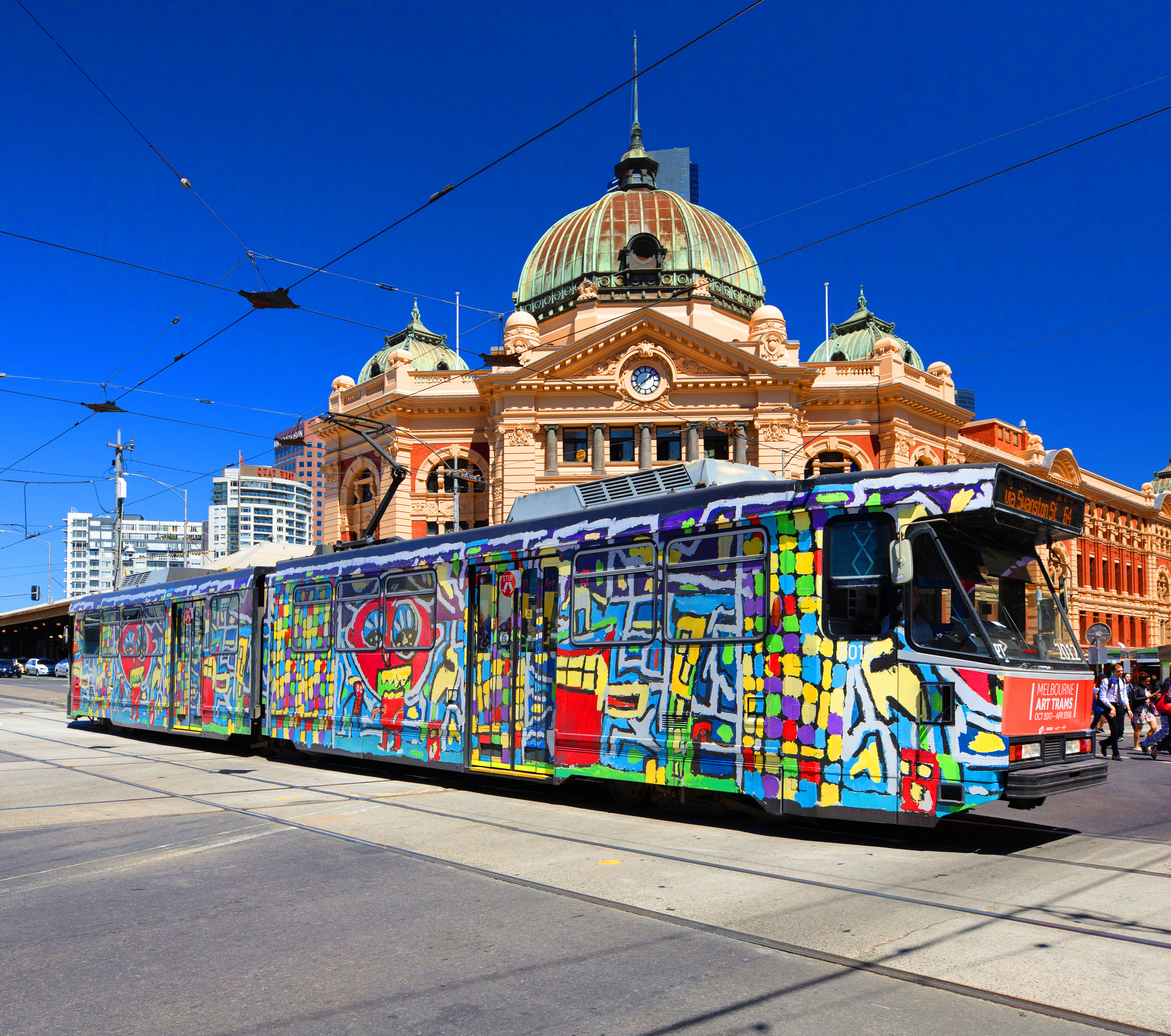 2017 Melbourne Art Tram designed by Matthew Clarke, passing Flinders Street Station in Melbourne.